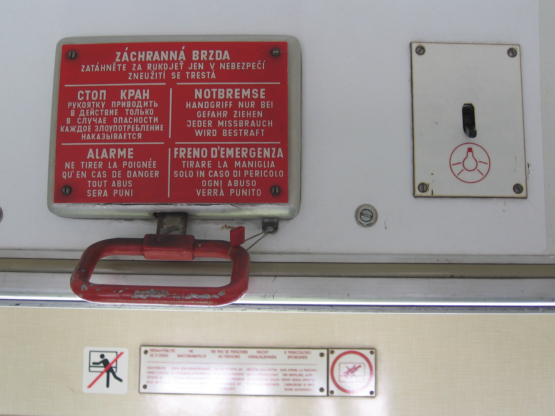 Emergency brake handle and lighting switch in the compartment of ČD AB 50 54 39-40 248-6